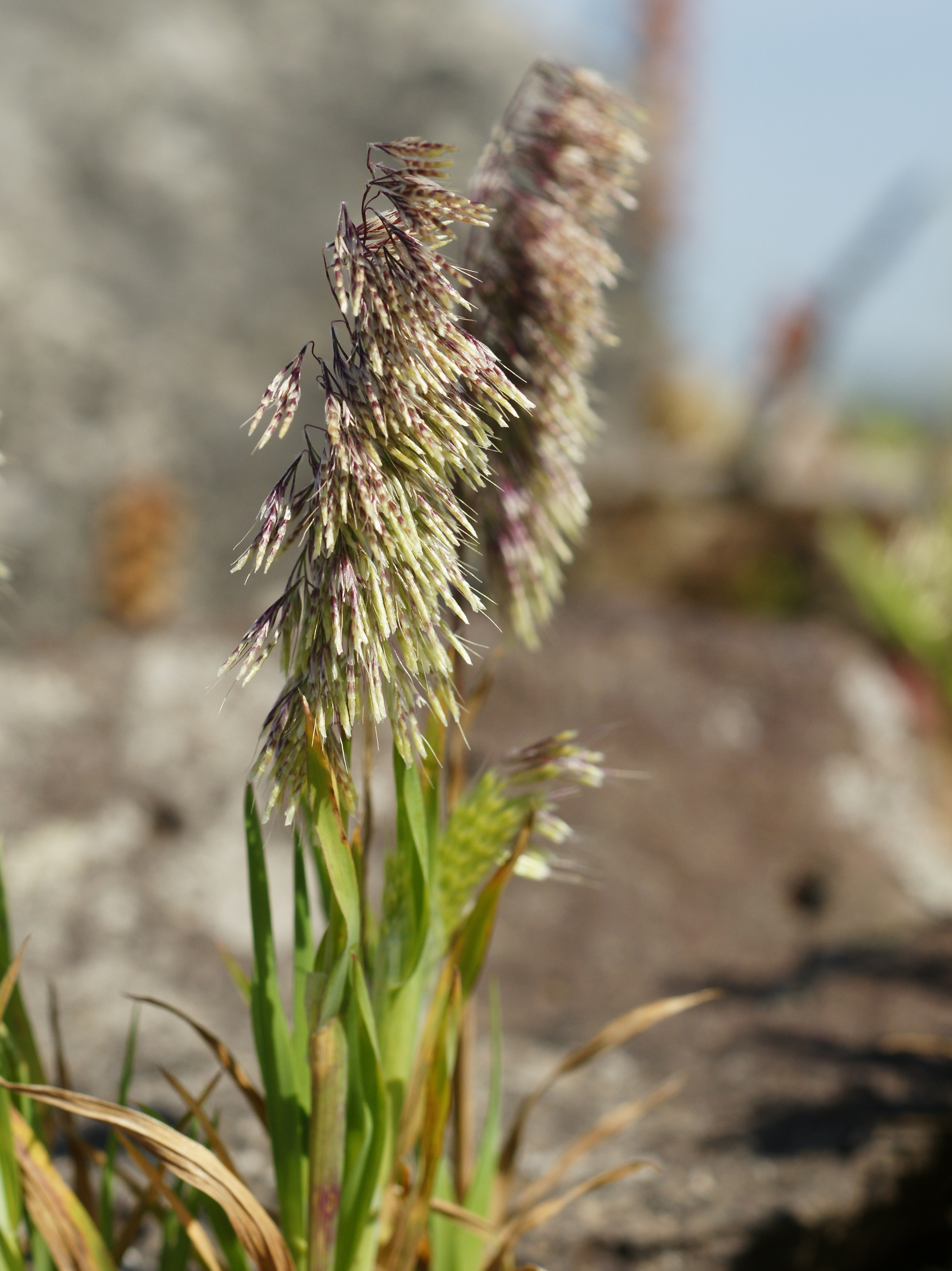 Golden Dog's-tail. Sardinia, Italy